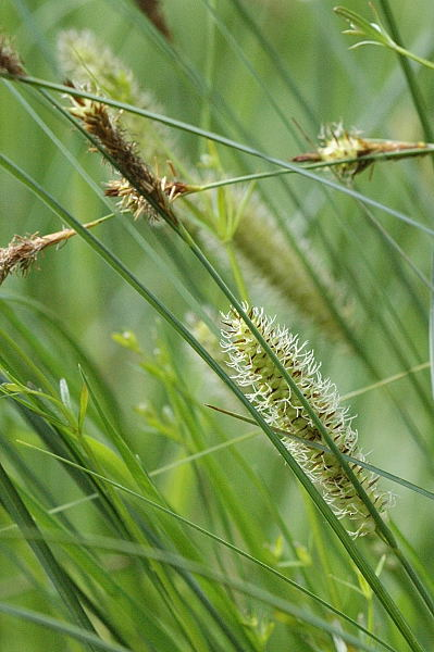 Picture taken in Commanster, Belgian High Ardennes . Species: Carex rostrata